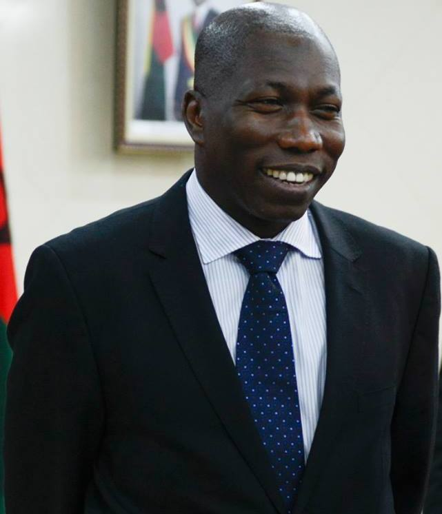 150709-N-AC887-002 Bissau, Guinea-Bissau (July 9, 2015) Secretary of the Navy (SECNAV) Ray Mabus met with the prime minister of the Republic of Guinea-Bissau, Domingos Simoes Pereira in Bissau, Guinea-Bissau. Mabus is in the region to discuss the importance of maritime security and and to reinforce existing partnerships with African nations. (U.S. Navy photo by Chief Mass Communication Specialist Sam Shavers/Released)